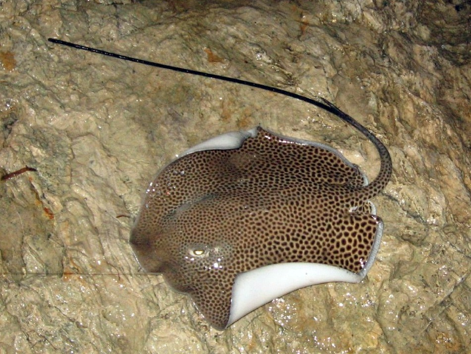 Reticulate whipray (Himantura uarnak) caught off Townsville, Queensland, Australia.